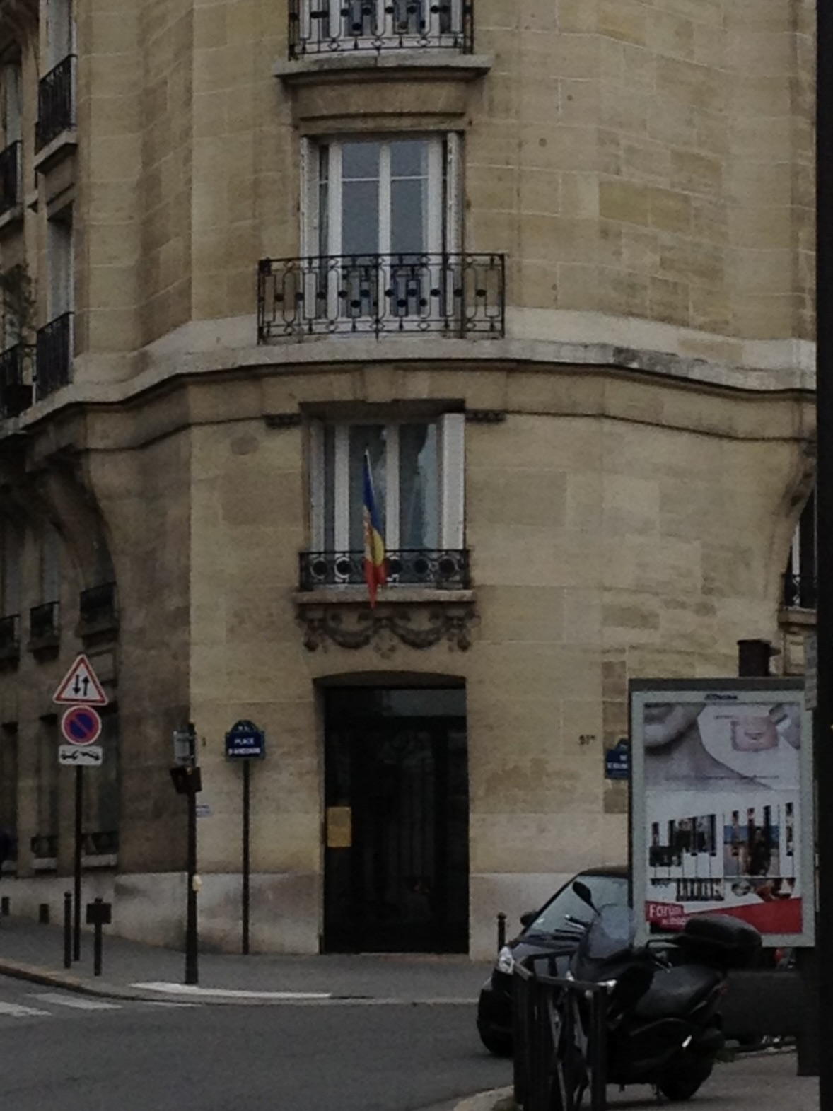 Embassy of Andorra in Paris, France.